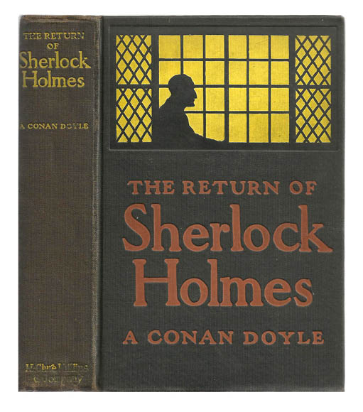 Cover of the book "The Return of Sherlock Holmes", 1905